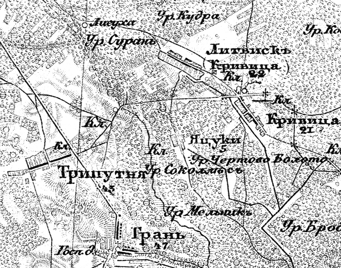 Hrani on the map "Военно-топографическая карта Российской Империи" (known as "Schubert's map"), XX 5, 1866-1887 (issued in 1913).